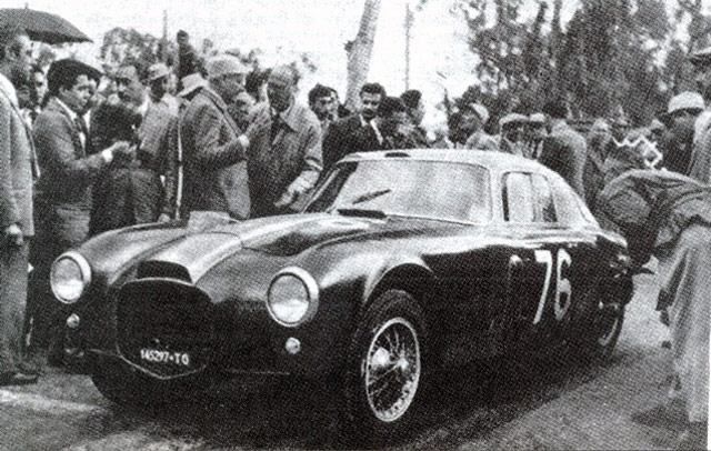 Entry #76 and the WINNER of the Targa Florio race on Sicily on 14 May 1953 was a Lancia D20 driven by Umberto Maglioli (alone). He represented Scuderia Lancia.[1] Can also be seen in this video